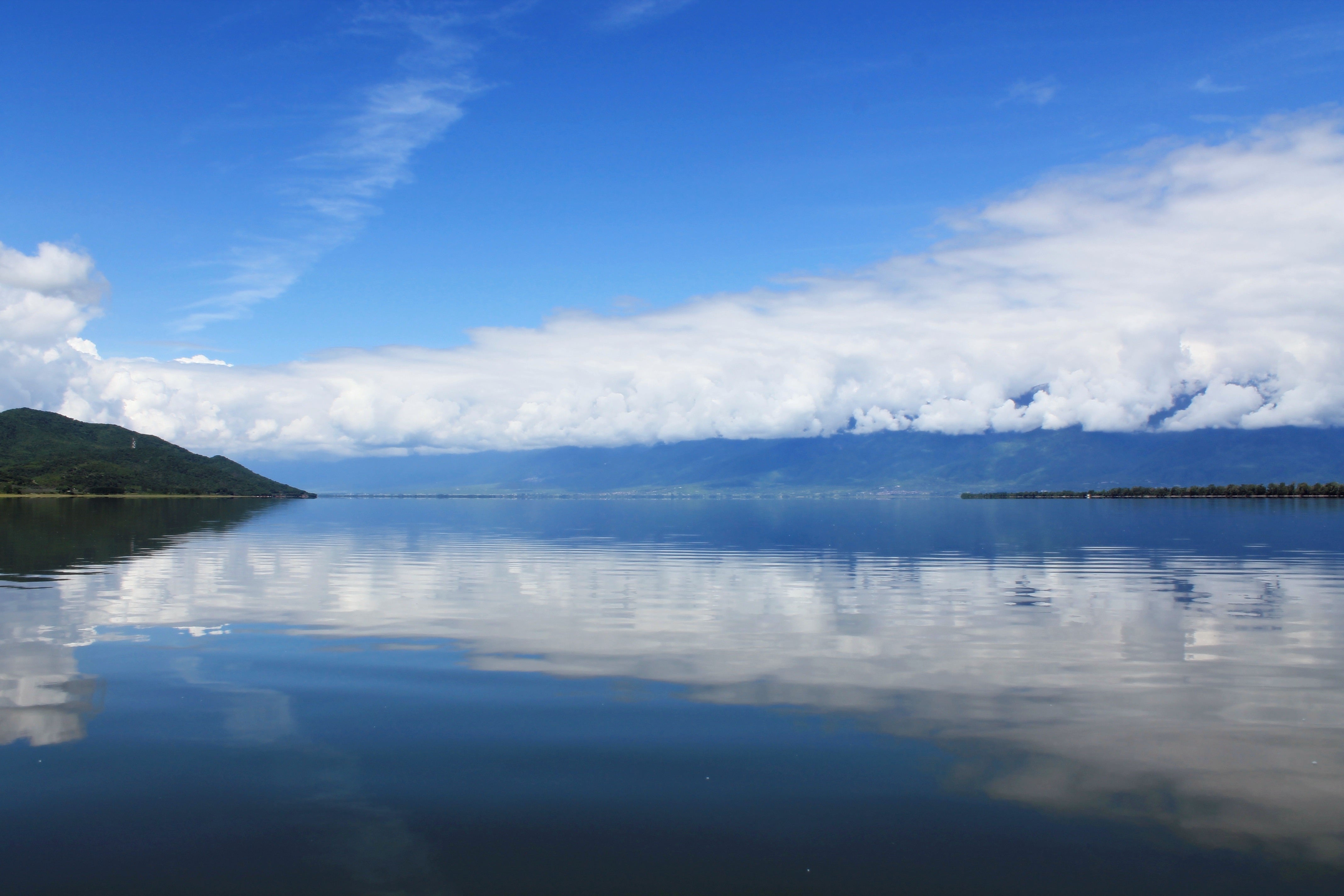 This is a photography of Natura 2000 protected area with ID GR1260001